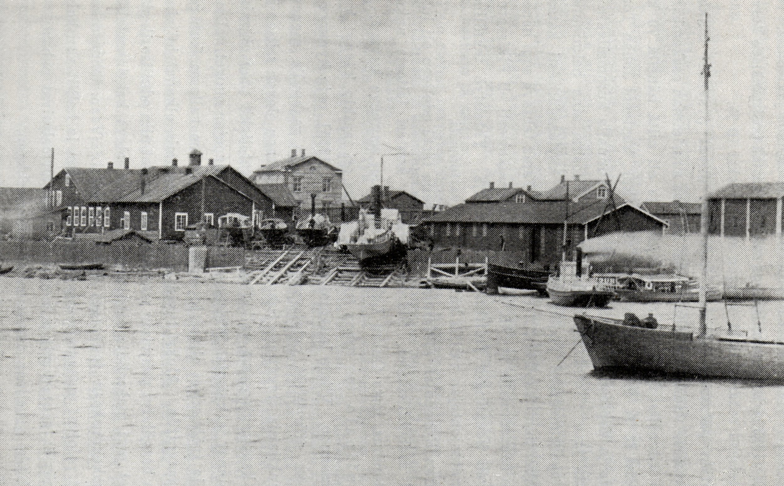 Oulun Konepaja engineering works area in 1880s.